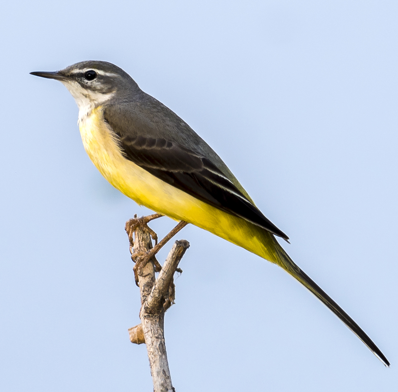 Grey wagtail from Hyderabad, India